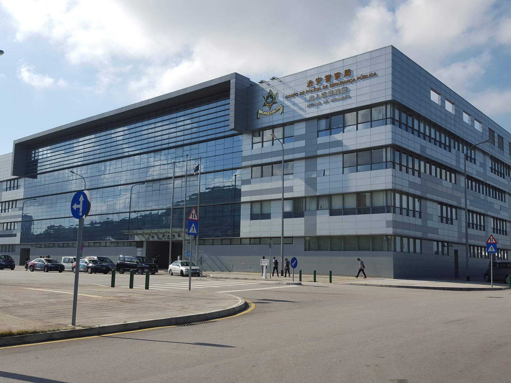 Immigration office building